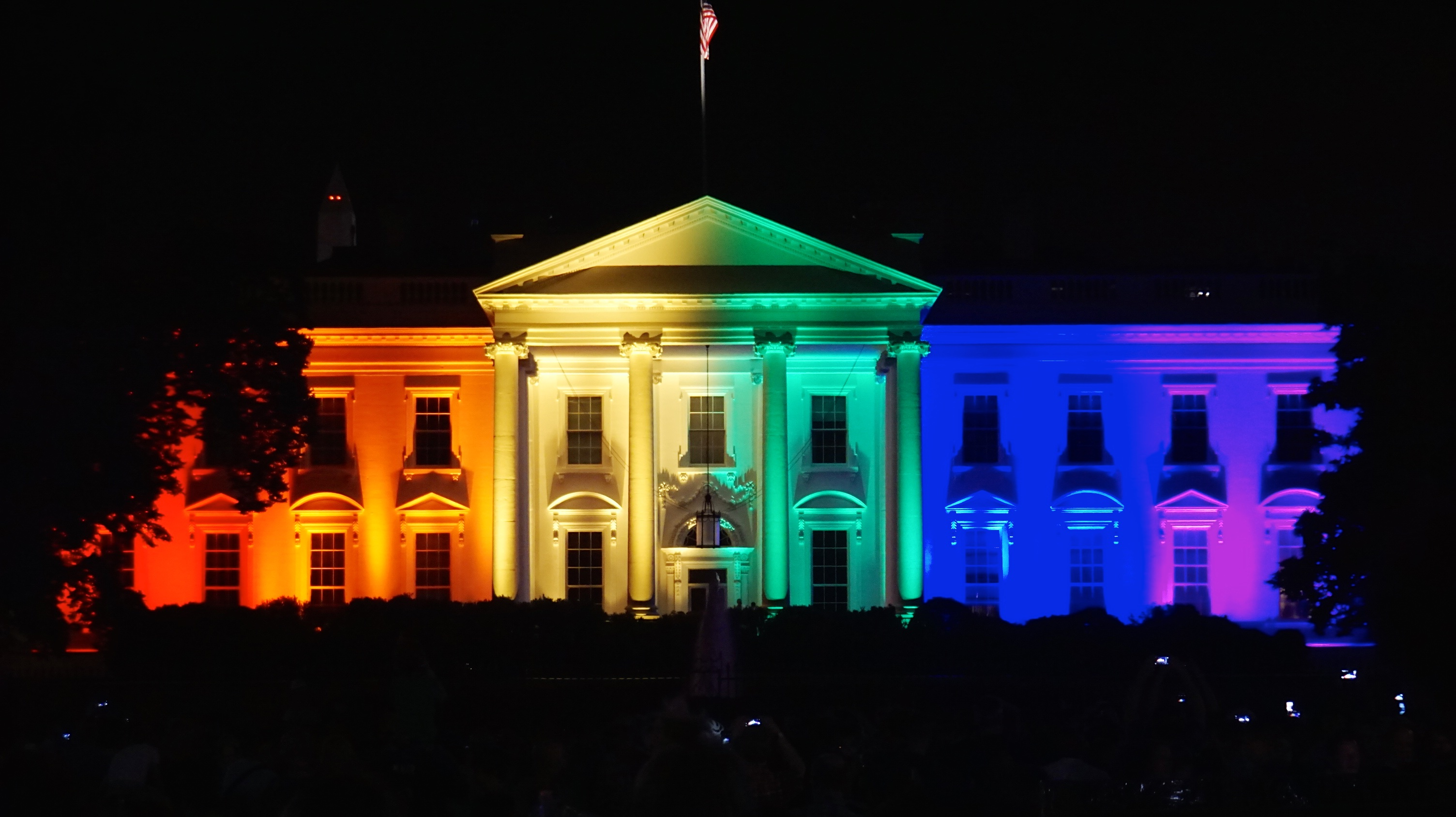 2015.06.26 White House Rainbow Colors